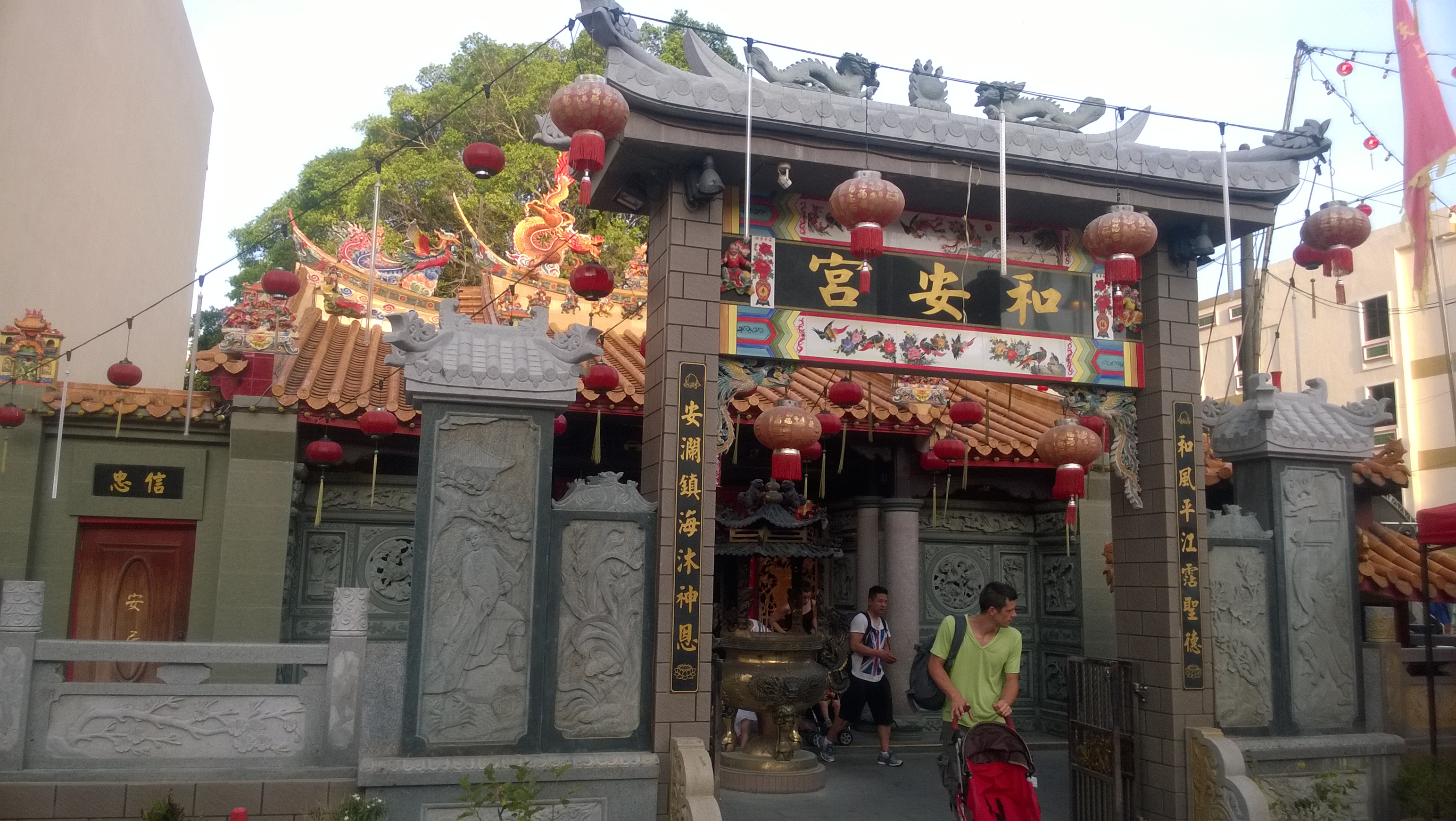 The facade of Ho Ann Kiong Temple in Kampung Cina, Kuala Terengganu, Terengganu.